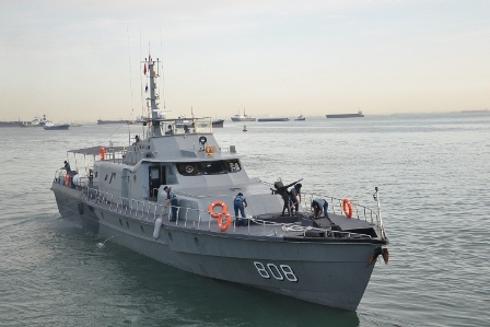 KRI Welang of the Indonesian Navy